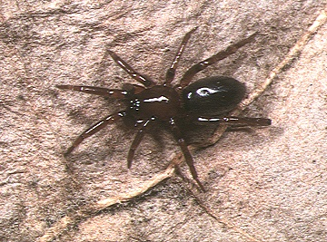 female Cladothela parva from Okinawa.